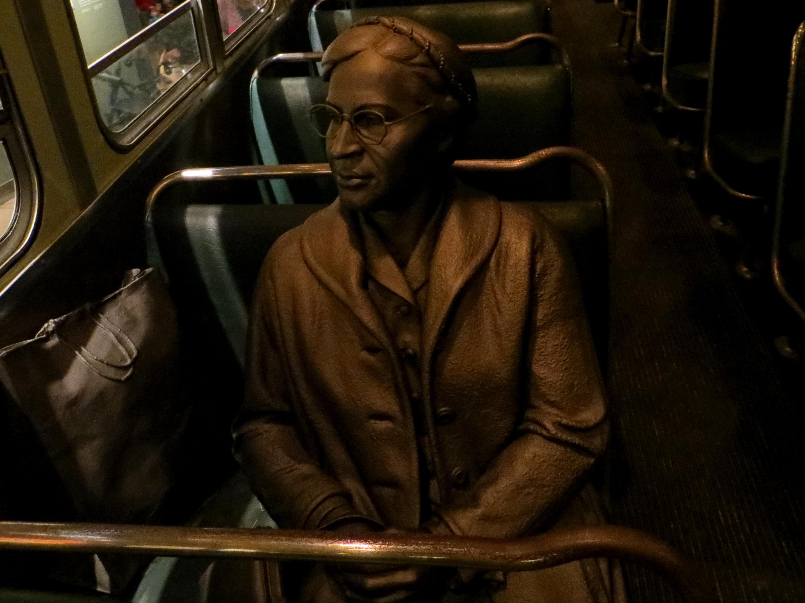 Statue Rosa Parks in the National Civil Rights Museum, Memphis, Tennessee